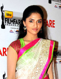 South Indian actress Sunaina at the 60th Filmfare Awards South